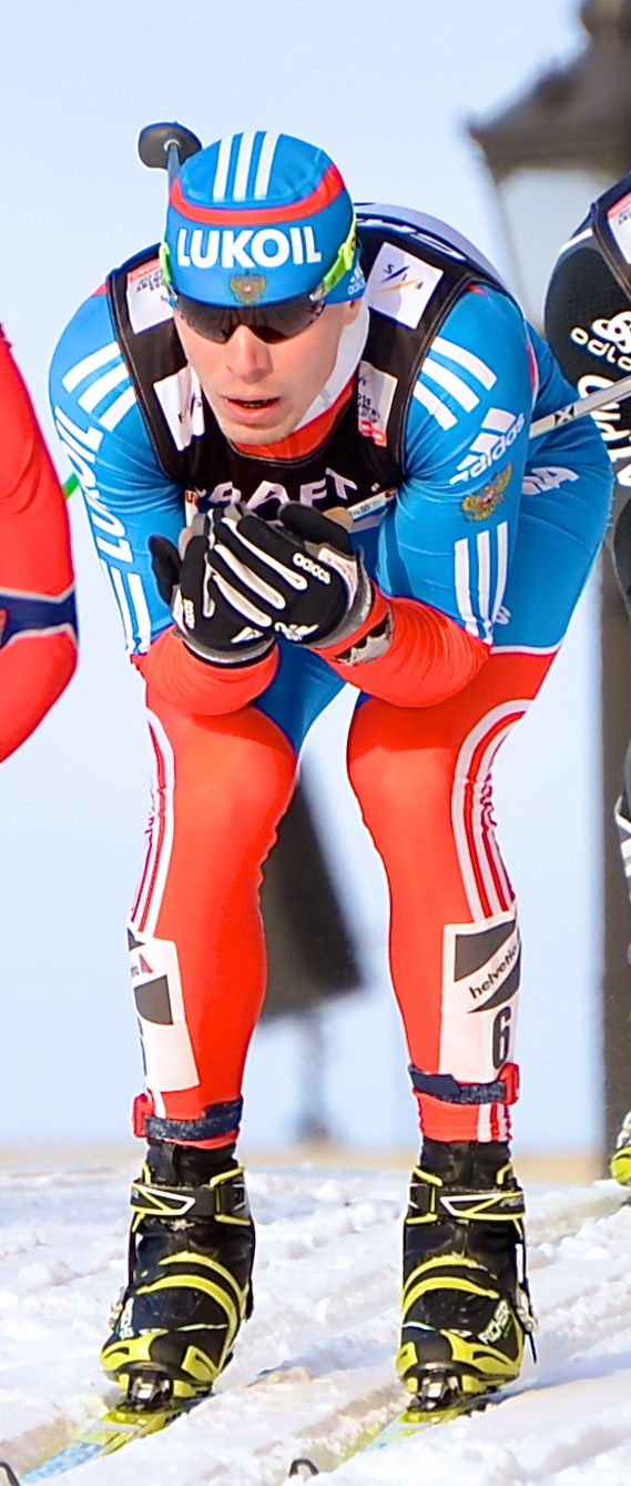 Russian cross-country skier Sergey Ustiugov at the 013 Royal Palace Sprint in Stockholm, Sweden.